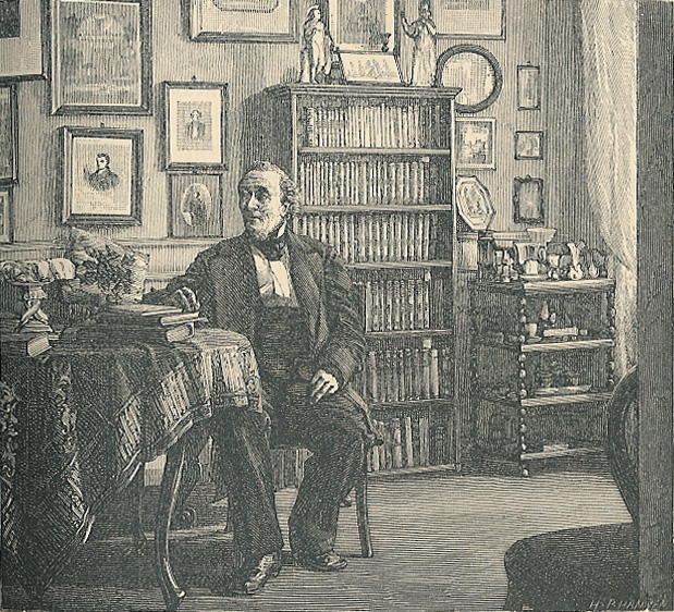 Hans Christian Andersen in his living room at his home in Nyhavn 18 in Copenhagen.